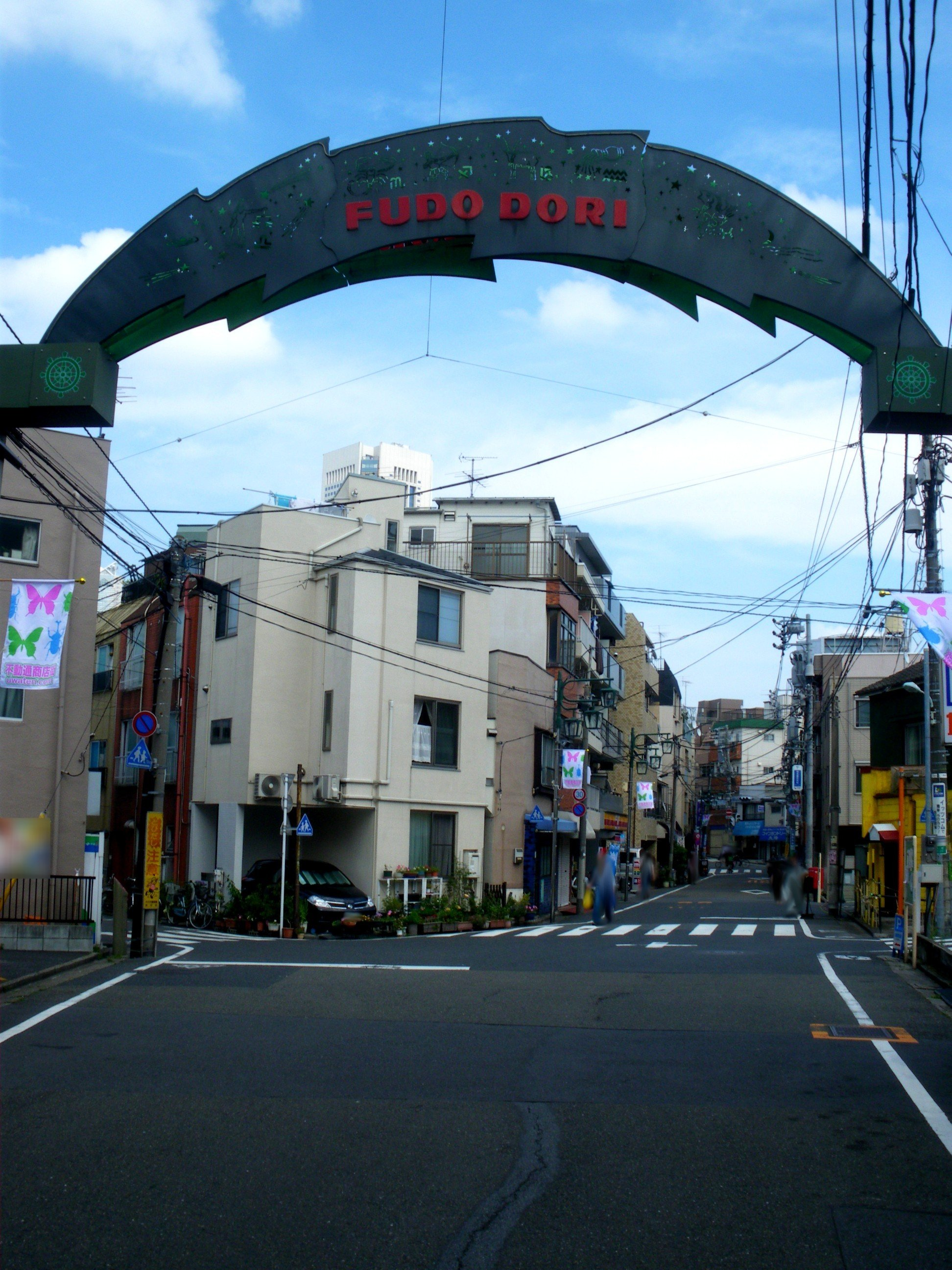 Fudodori Shopping Street(Honmachi,Shibuya,Tokyo)